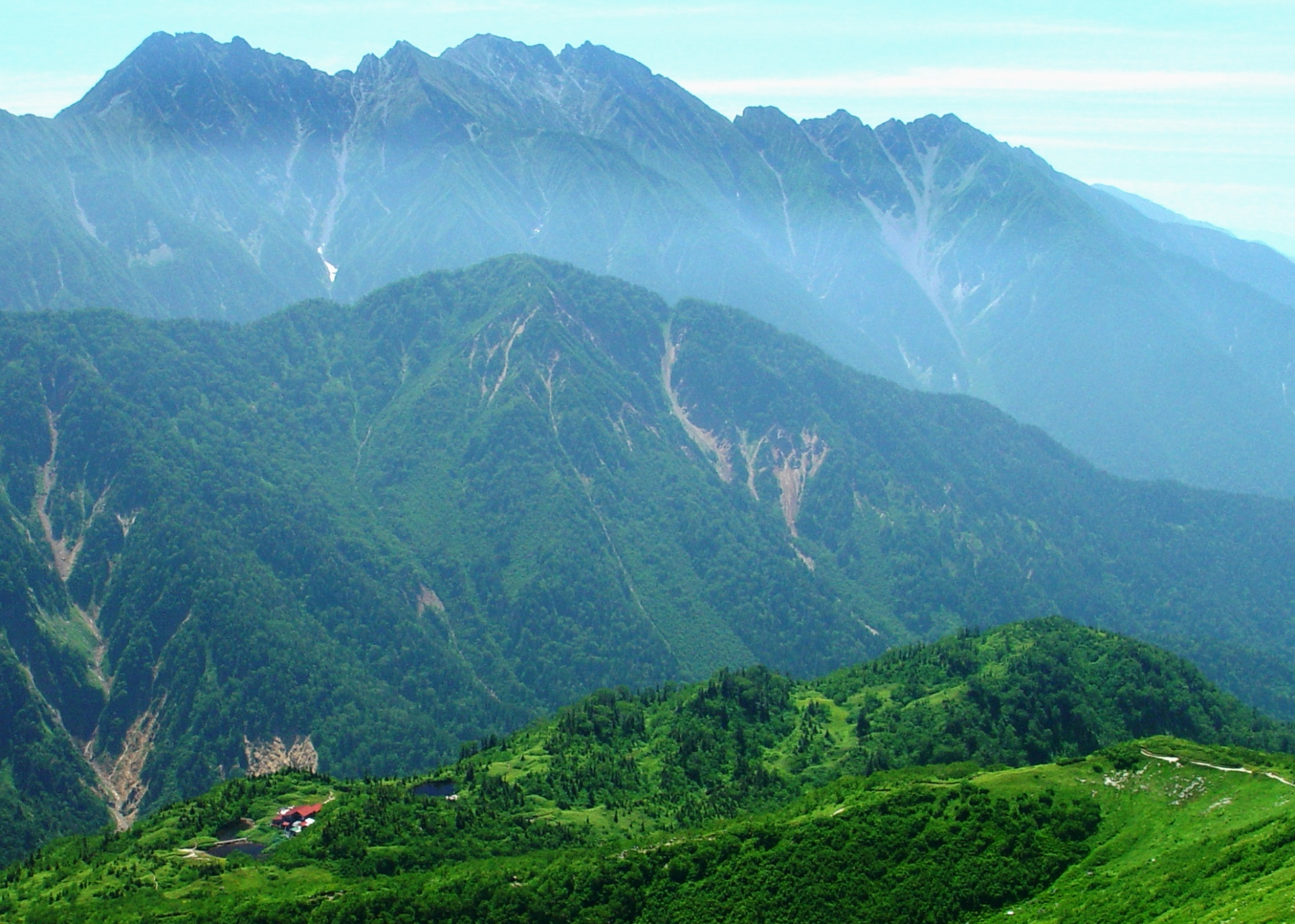 Kagamidaira Sanso ("Kagamidaira Hut") and Mount Hotaka, in the Hida Mountains, Japan